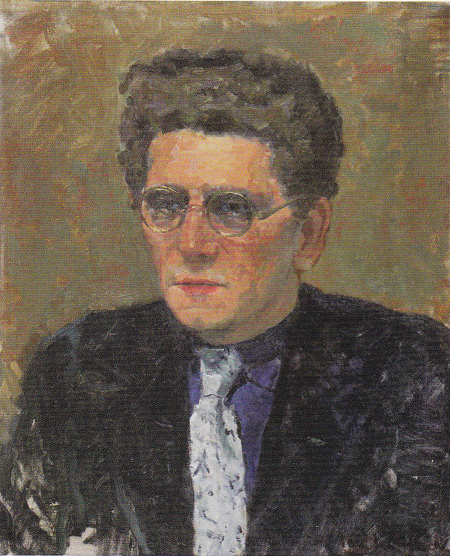 Dutch author Maurits Dekker (1896-1962). Portrait by Meijer Bleekrode (1896-1943). Collection Letterkundig Museum, The Hague (the Netherlands)